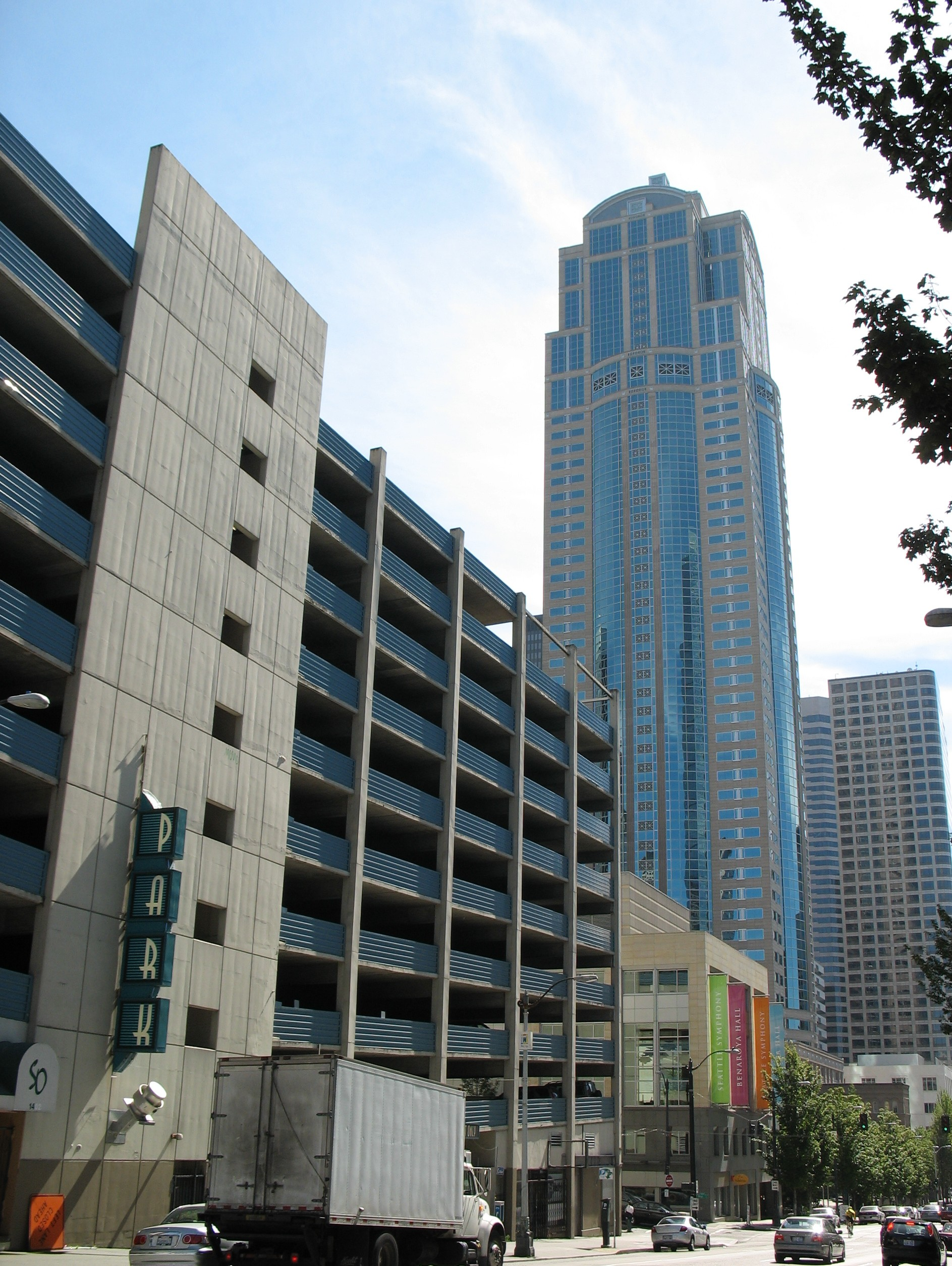 Washington Mutual Tower in Seattle, WA, seen from street level on 2nd Ave. between Pike St. and Union St. Late morning, 26 August 2006.